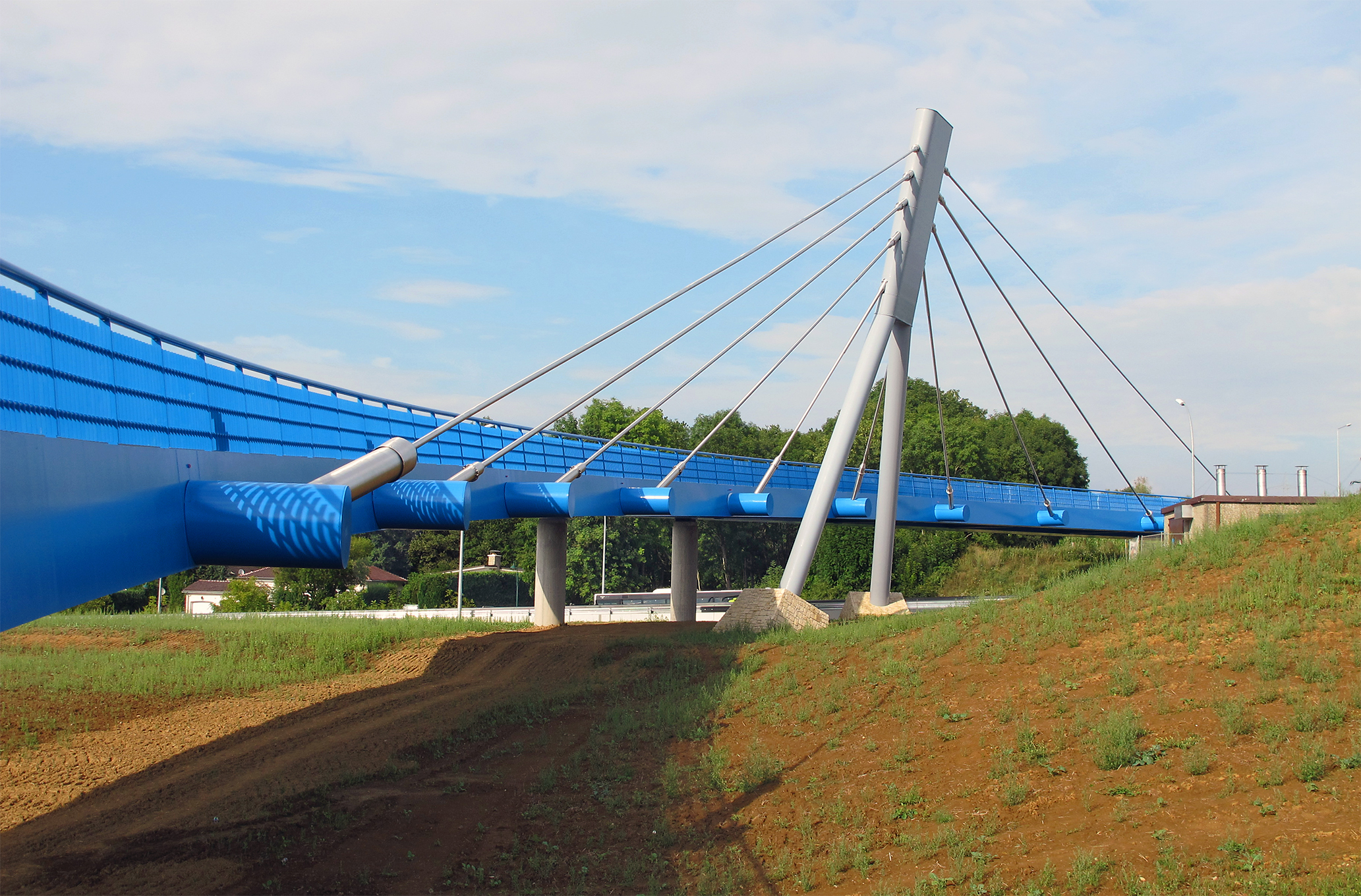 Fly-over-bridge in Bertrange, Luxembourg